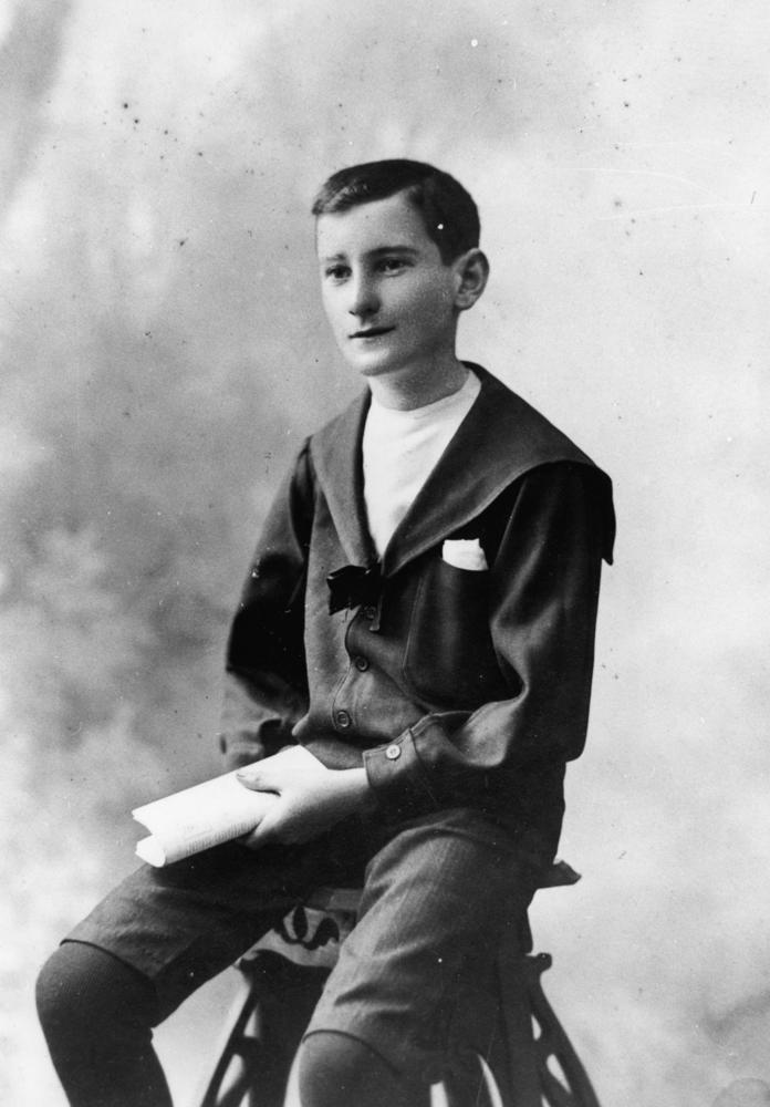 Arthur H. Cole, Dux of Oxley State School in 1910 Arthur H. Cole came first in 29 competitions held under Government Scholarship conditions for the Ipswich Grammar School Trustees Scholarships, 1911 to 1913. (Description supplied with photograph.).